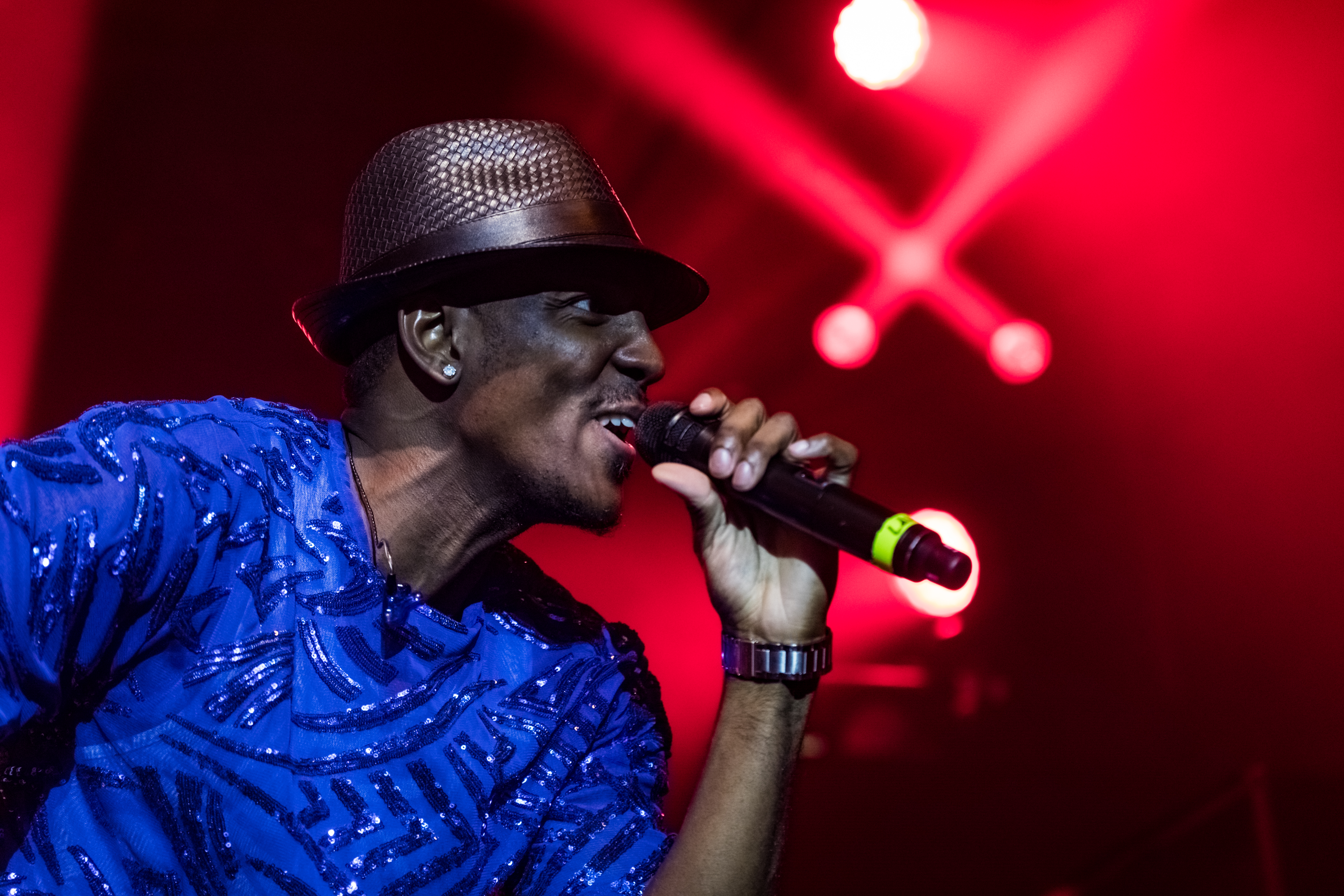 Kool & the Gang - Leverkusener Jazztage 2017